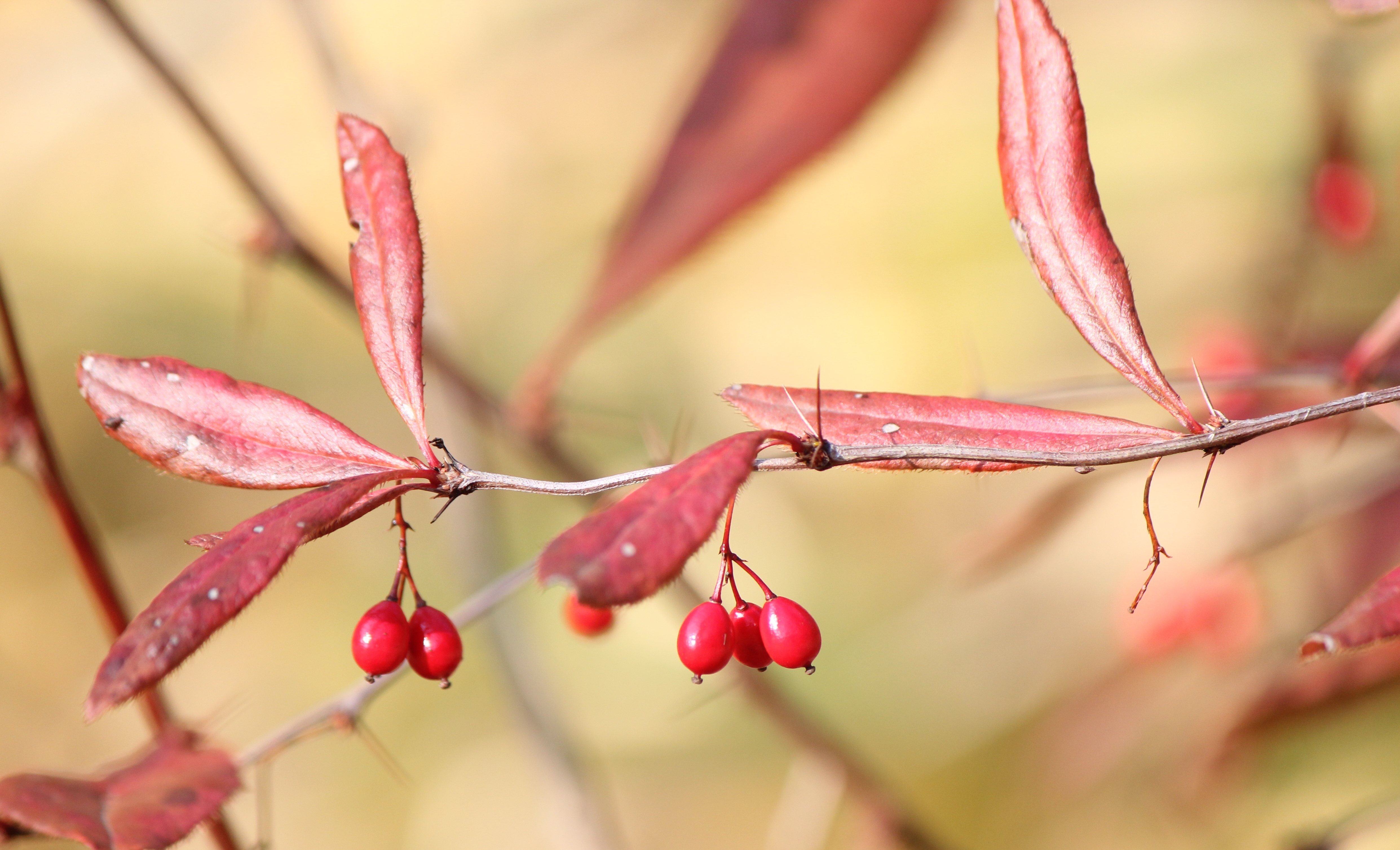 Berberis sieboldii with red fruits, in Kasugai, Aichi prefecture, Japan.